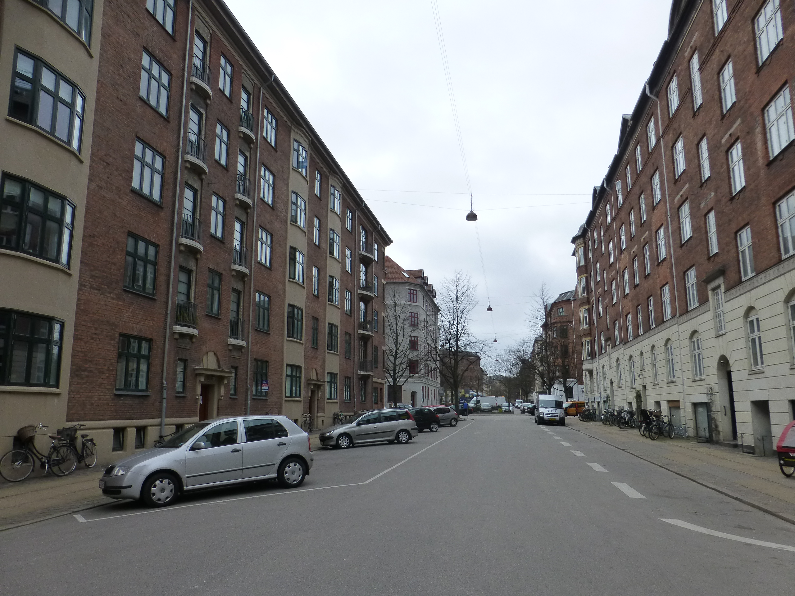 The street Løgstørgade in Østerbro in Copenhagen.